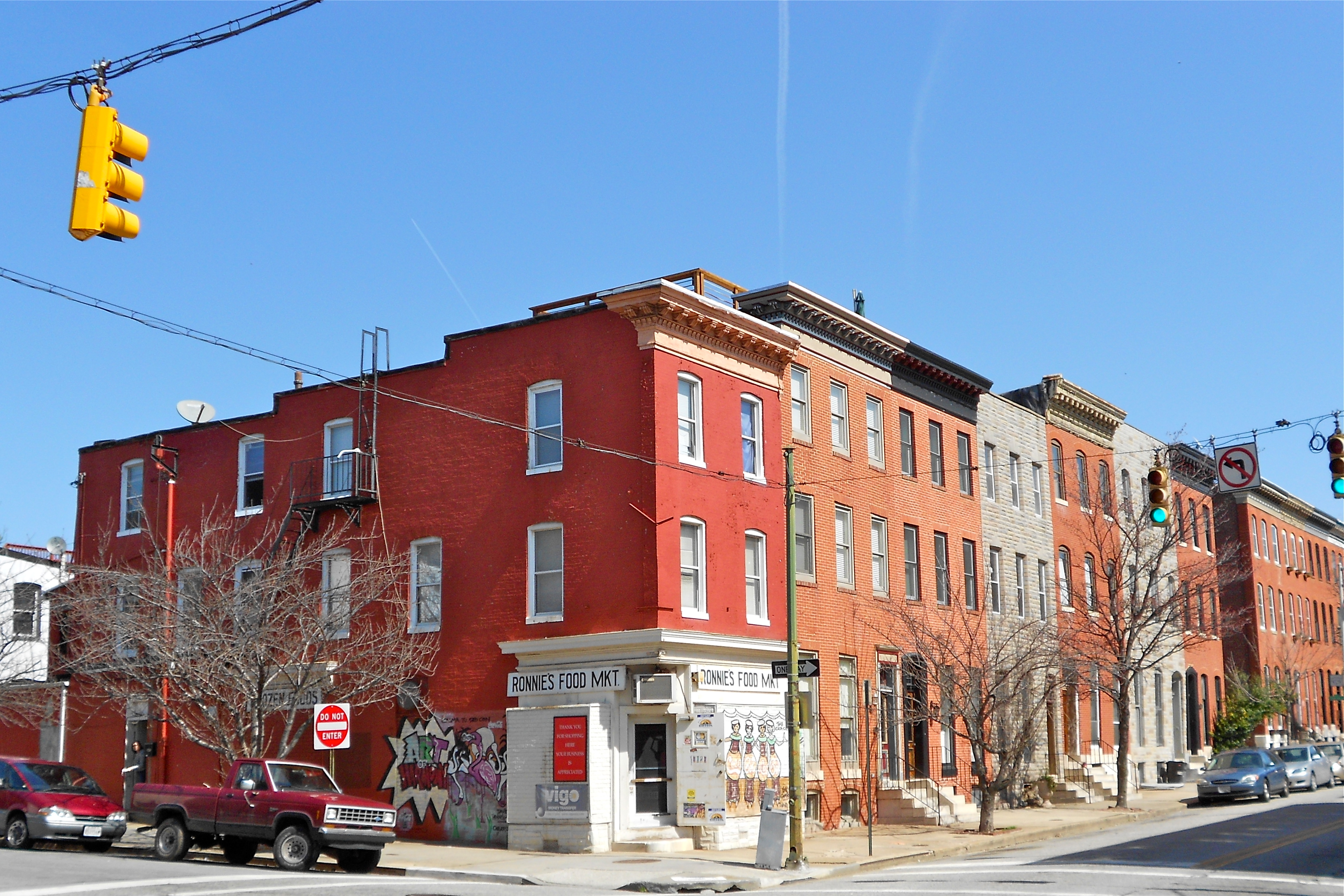 Butchers Hill Historic District on the NRHP since December 28, 1982 The historic district is roughly bounded by Patterson Park Ave. and Fayette, Pratt, Chapel, Washington, and Chester Sts. in southeast Baltimore, Maryland.